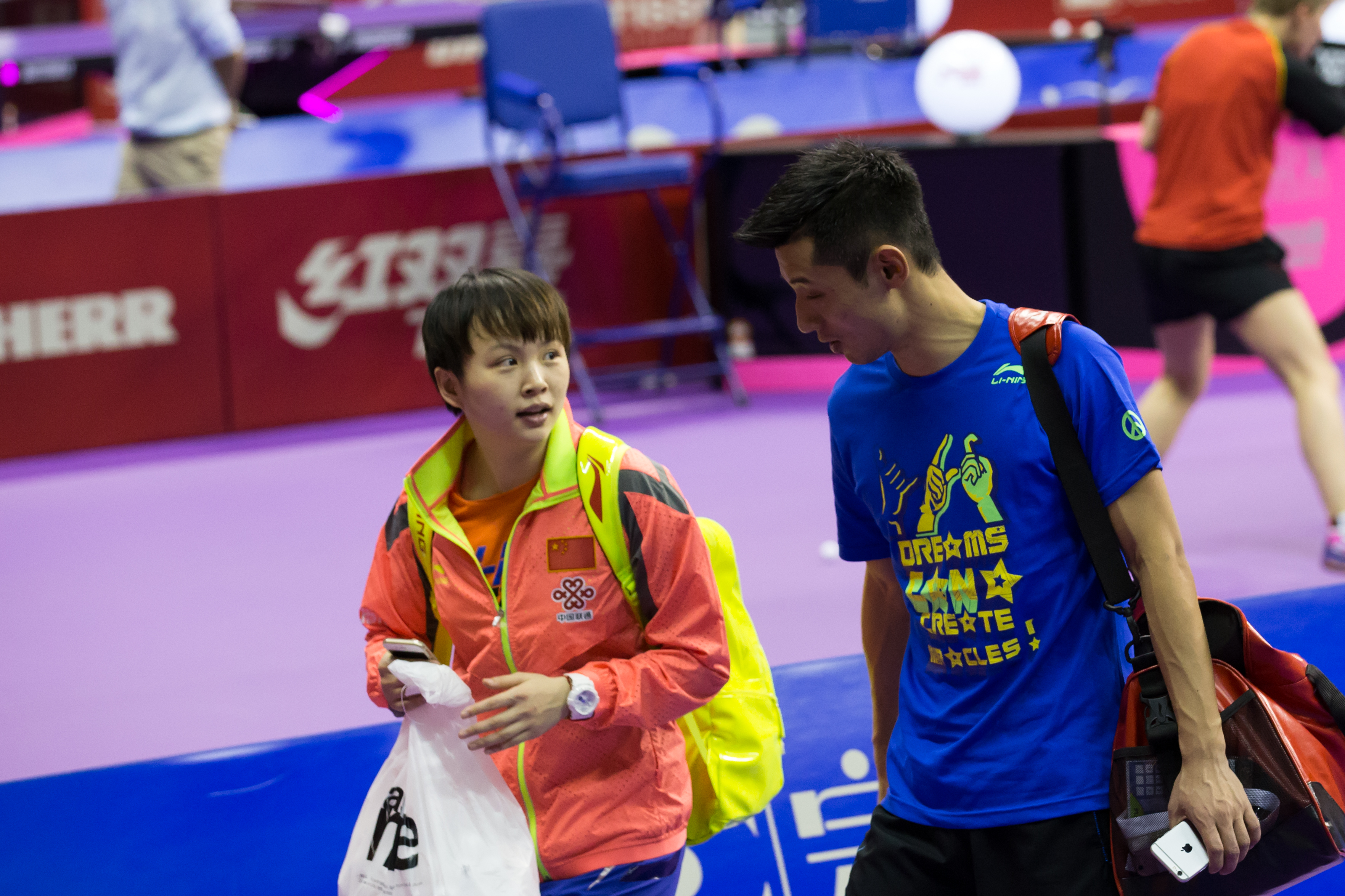 He Zhuojia, Zhang Jike, 2016 World Team Table Tennis Championships